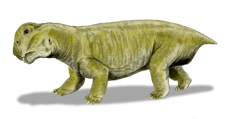 Lystrosaurus murrayi, a dicynodont from the Early Triassic of South Africa, pencil drawing, digital coloring